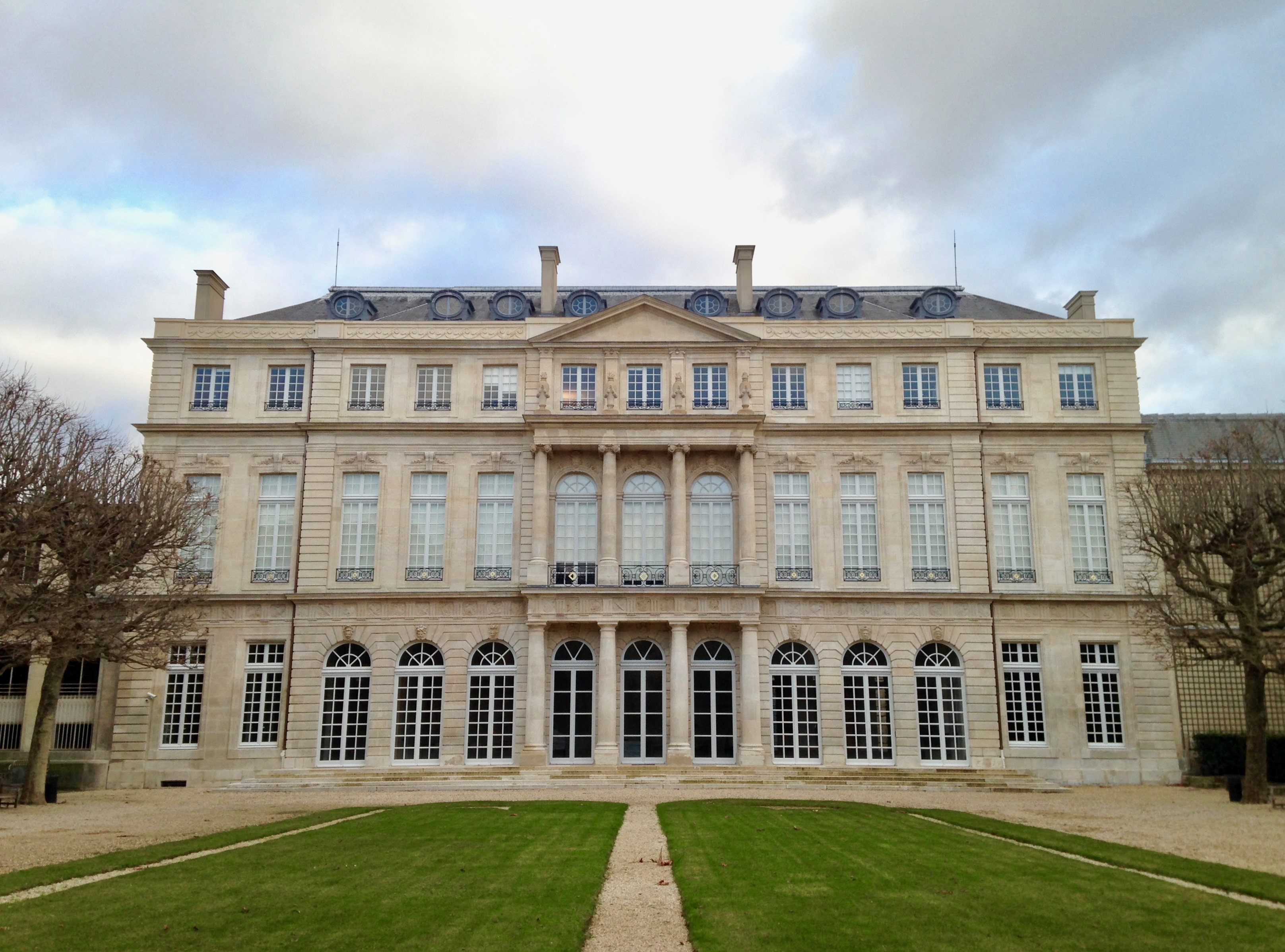 Garden facade of the hôtel de Rohan in Paris, after renovation